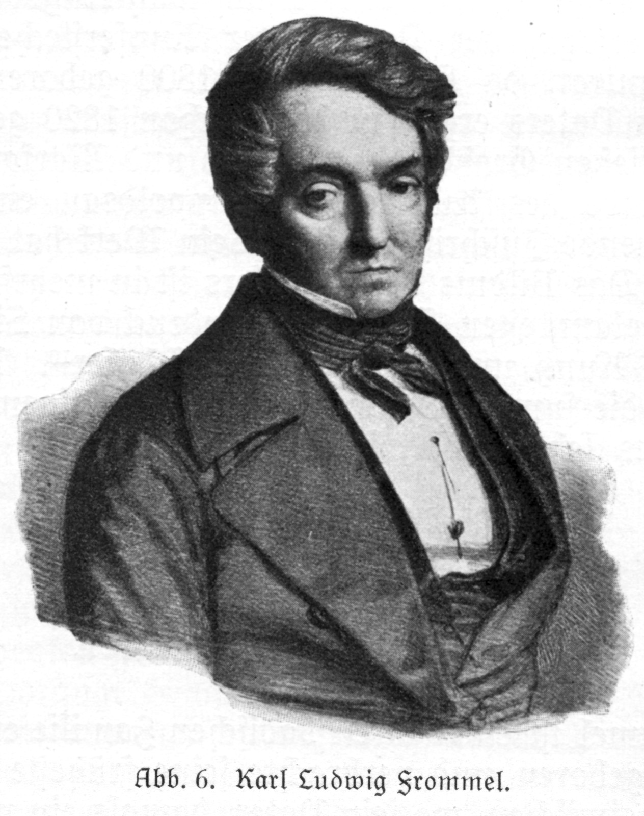 Portrait of German engraver Carl Ludwig Frommel (1789-1863).